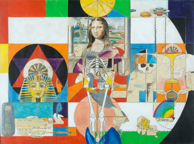 Maria